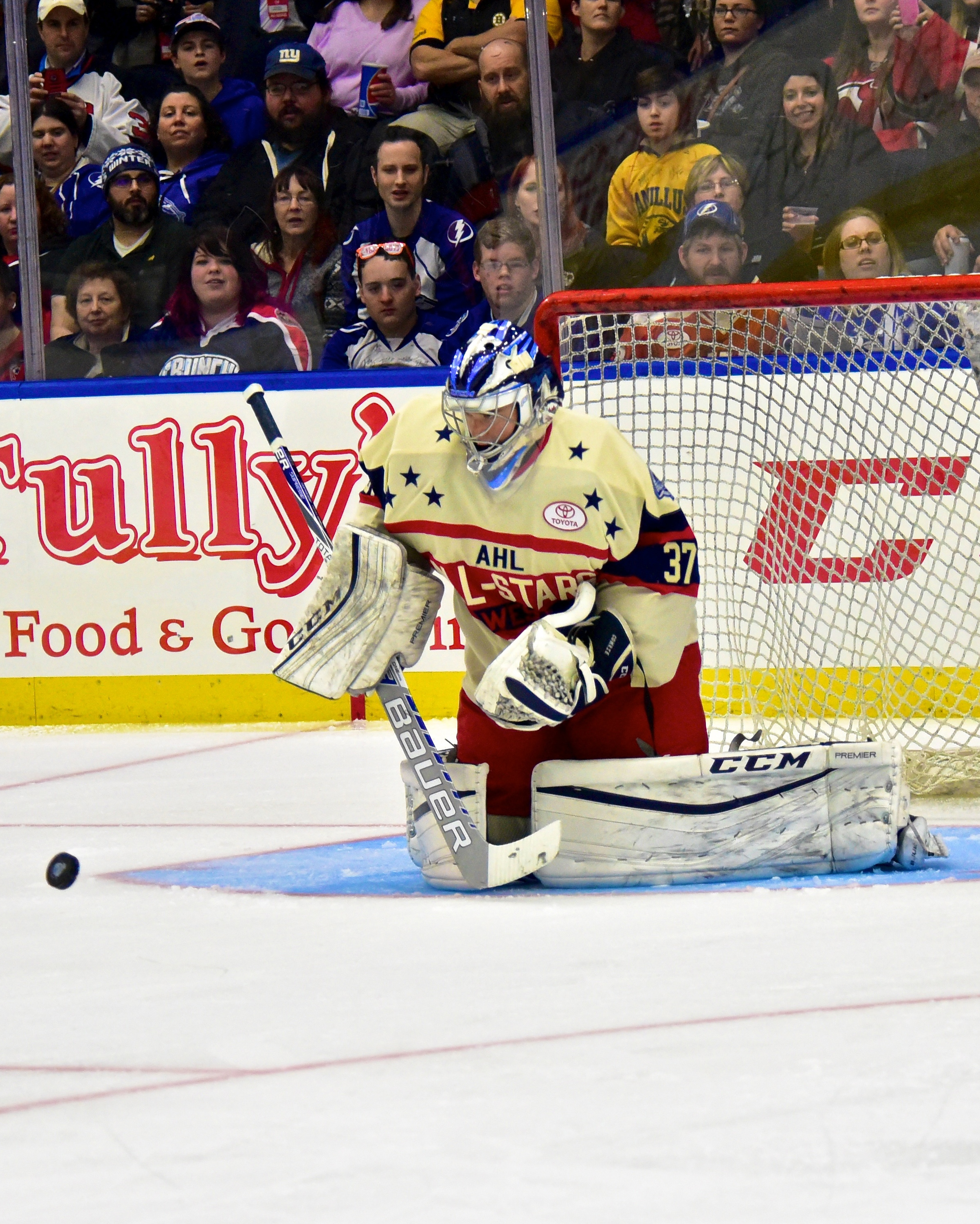 AHL All-Star Challenge Eastern Conference locker room at the War Memorial Arena in Syracuse, New York on Monday, February 1, 2016.